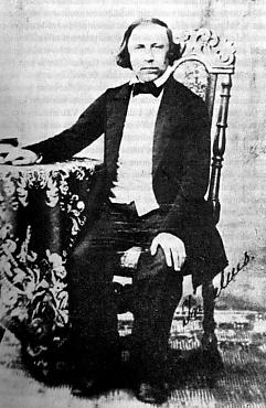 Finnish author and composer Axel Gabriel Ingelius (1822-1868).